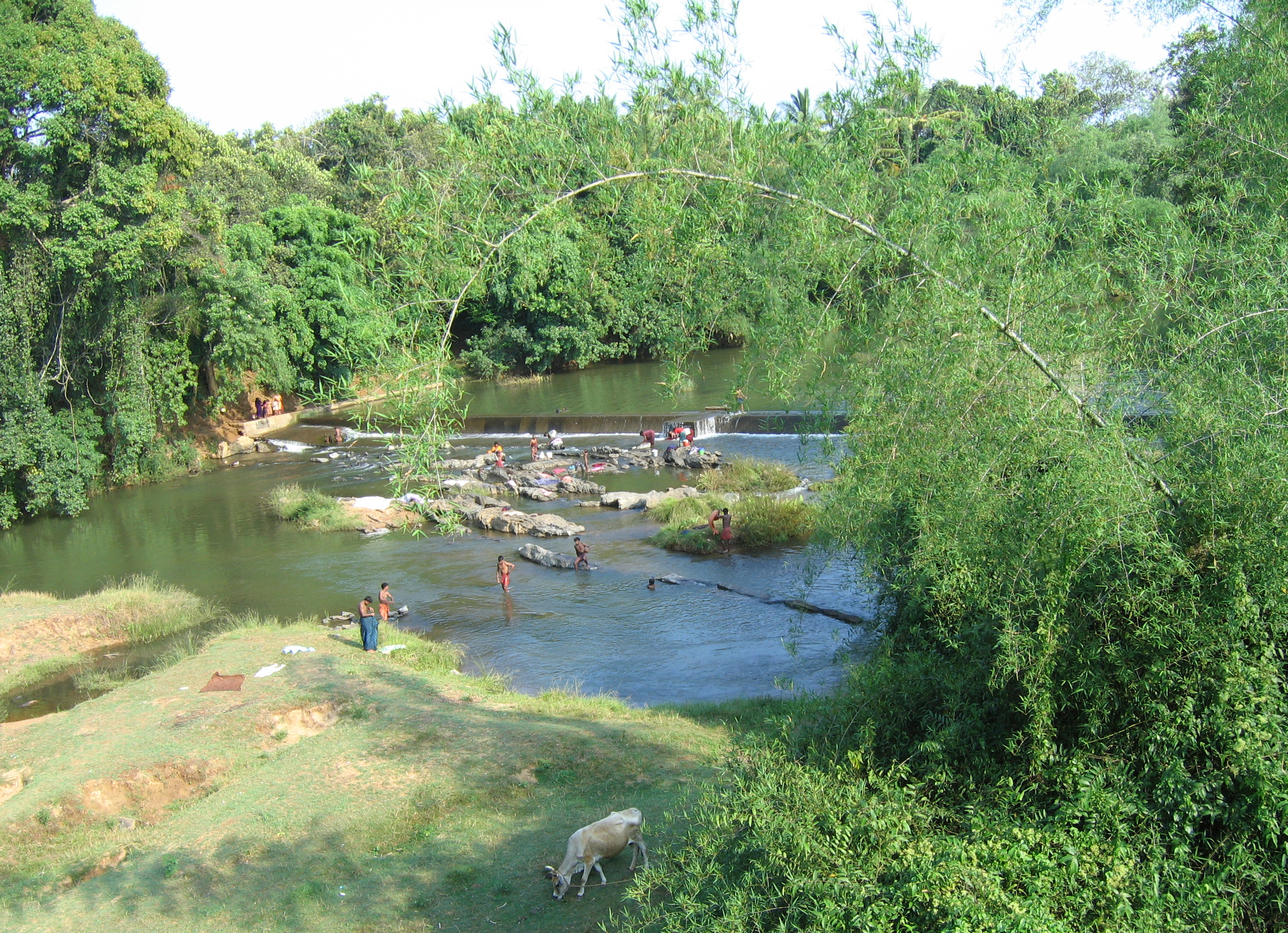 Wayanad -views from Koileri Bridge